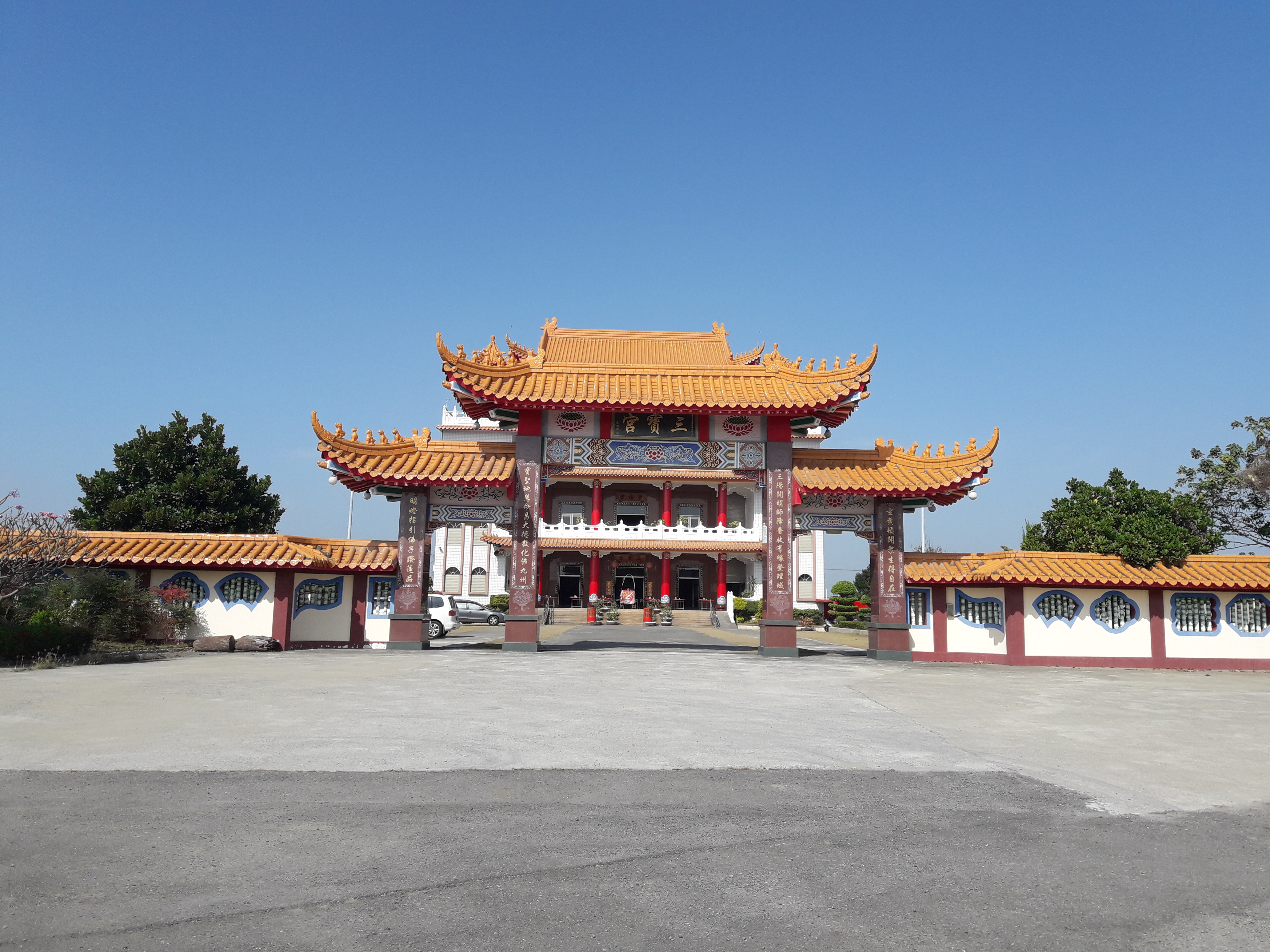 Sanbao Temple is a Ikuan Tao (一貫道, pinyin: Yiguandao) temple in Huwei Township, Yunlin County, Taiwan, which is built in 1973.